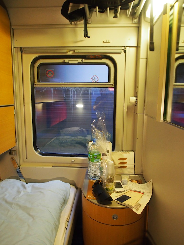 Cologne to Vienna EuroNight 1st calls sleeper.